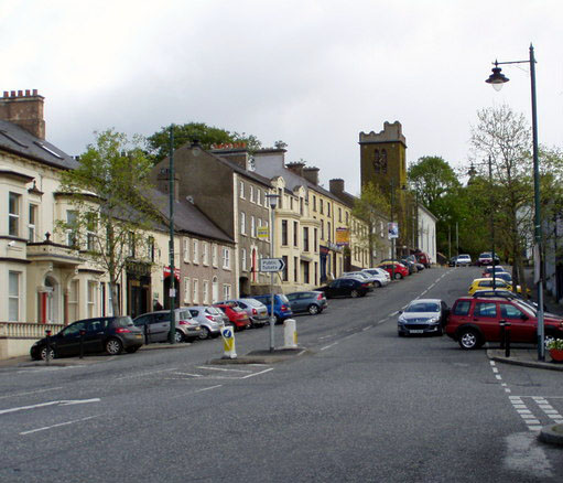 Main Street, Richhill, County Armagh, Northern Ireland